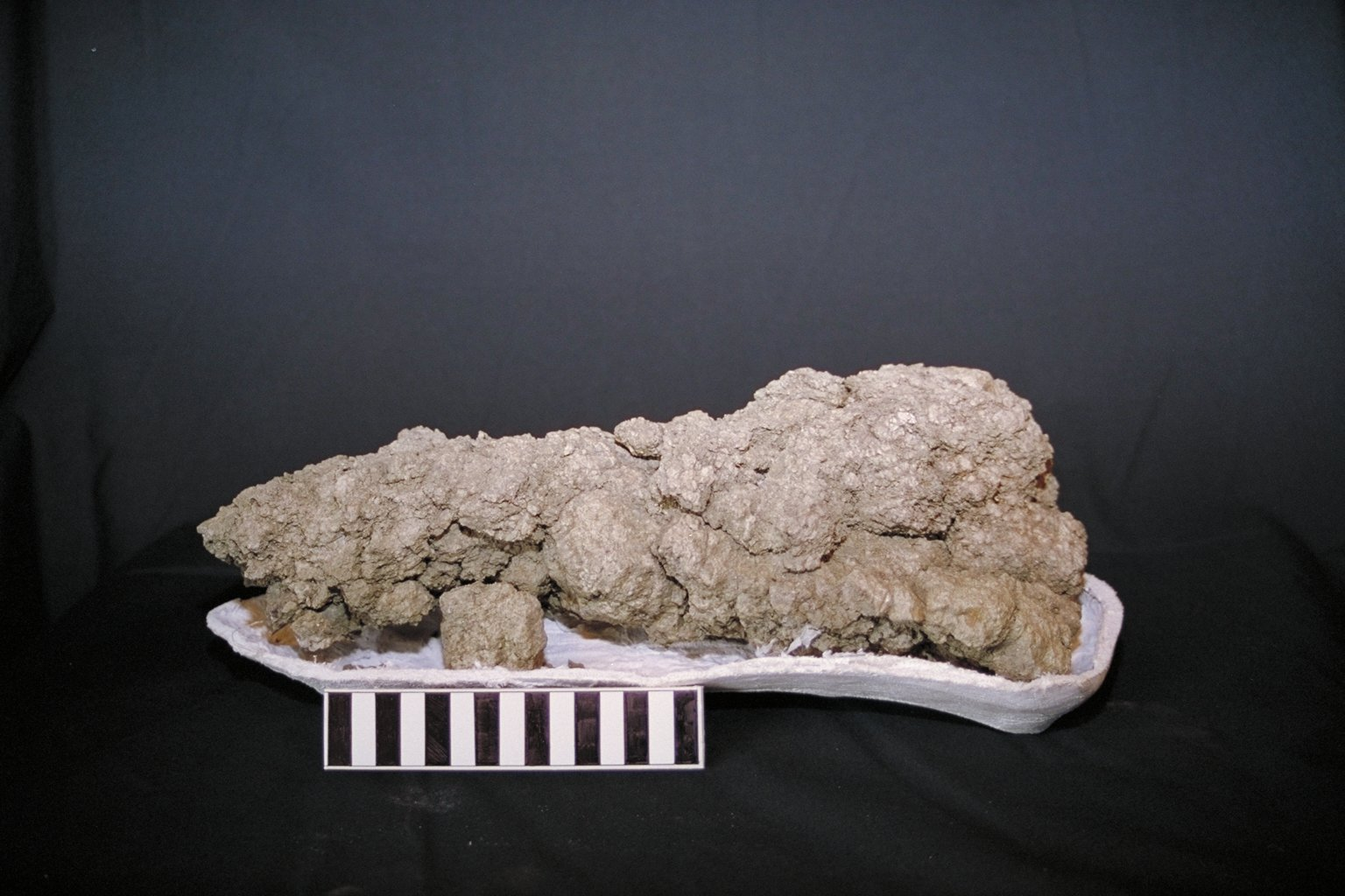 Fossil feces from a carnivorous dinosaur. Specimen was found in southwestern Saskatchewan, Canada. Scale bar is 15 centimeters (approximately 6 inches) long.